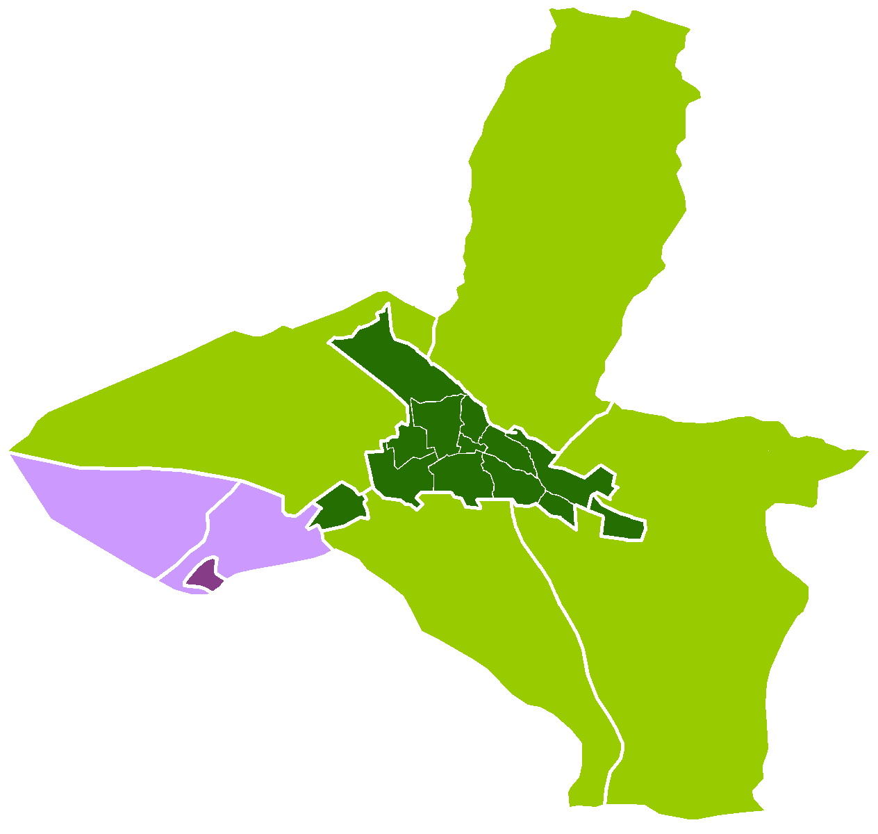 Tabriz county; Iran